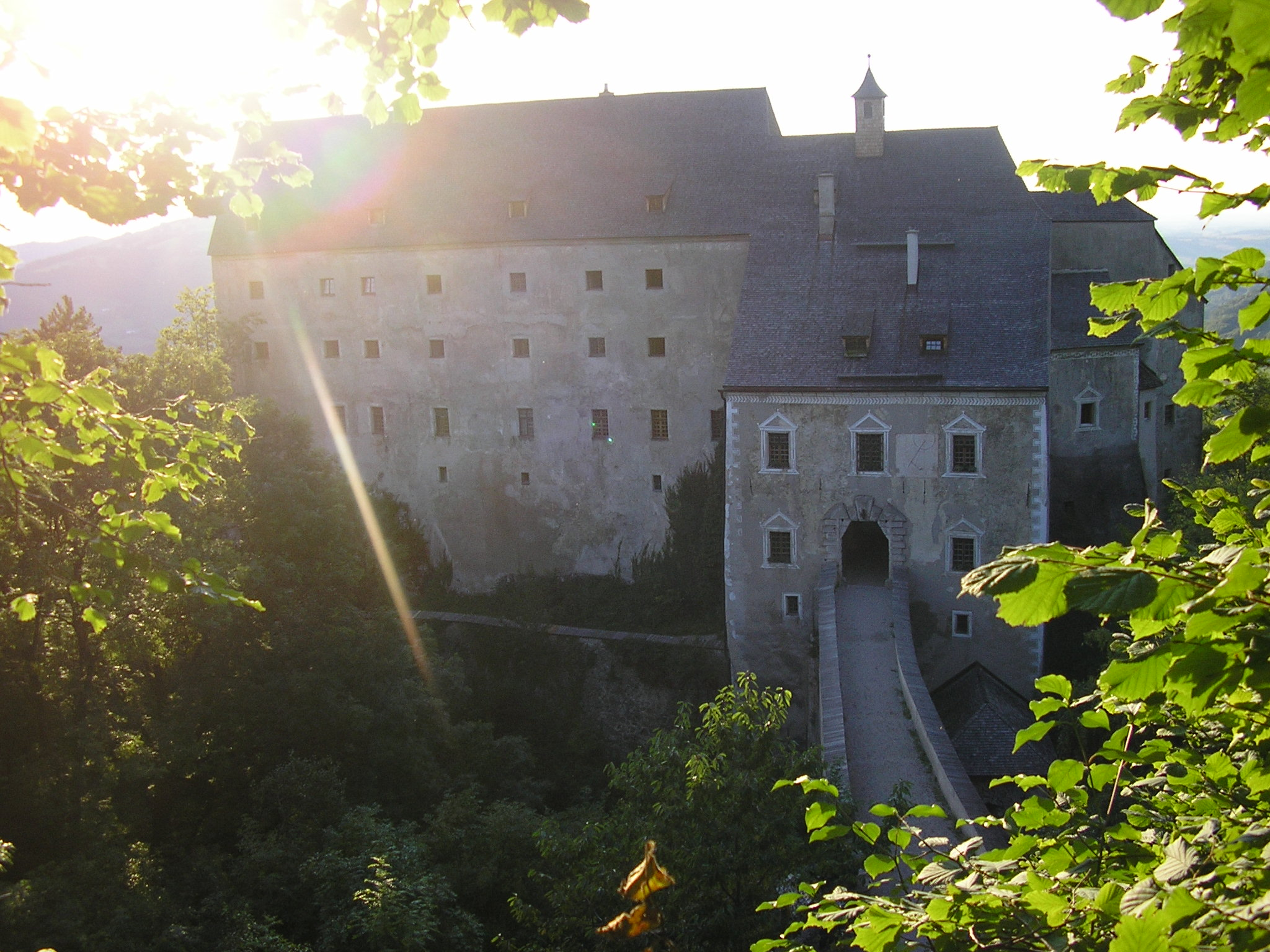 Castle Altpernstein, romantic